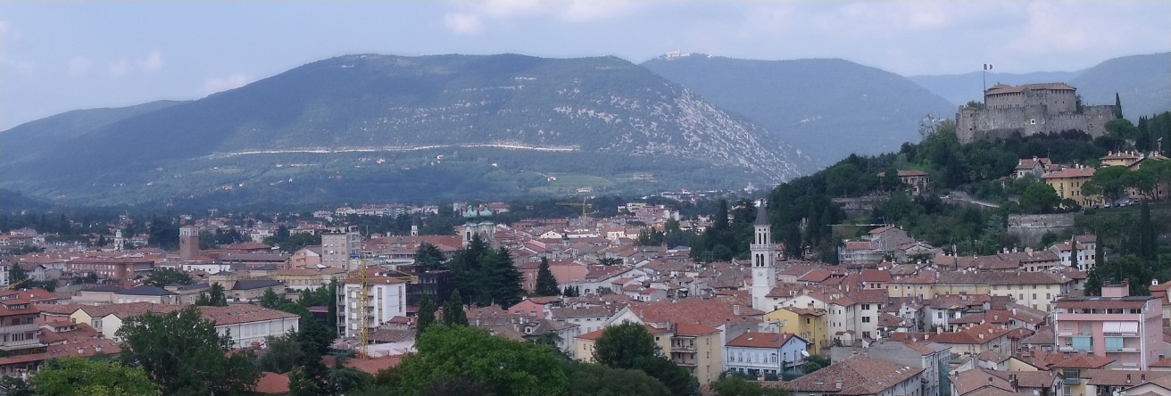 Sabotin (Monte Sabotino) viewed from Gorizia (cropped from original panorama picture)